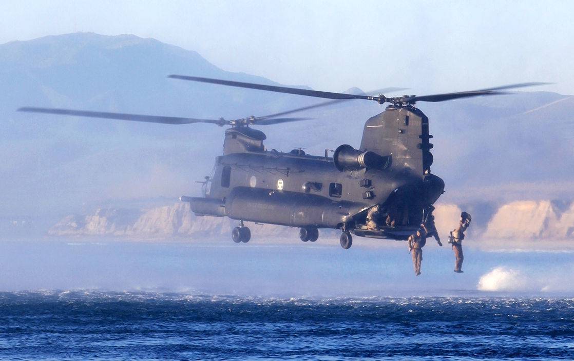 Marines with the 1st Marine Special Operations Battalion, U.S. Marine Corps Forces, Special Operations Command helocast from a CH-47 helicopter during Visit, Board, Search and Seizure (VBSS) training with the 160th Special Operations Aviation Regiment near Camp Pendleton, Calif., Dec. 11. VBSS, which consists of maritime vessel boarding and searching, is used to combat smuggling, drug trafficking, terrorism and piracy. (U.S. Marine Corps photo by Cpl. Kyle McNally/Released)